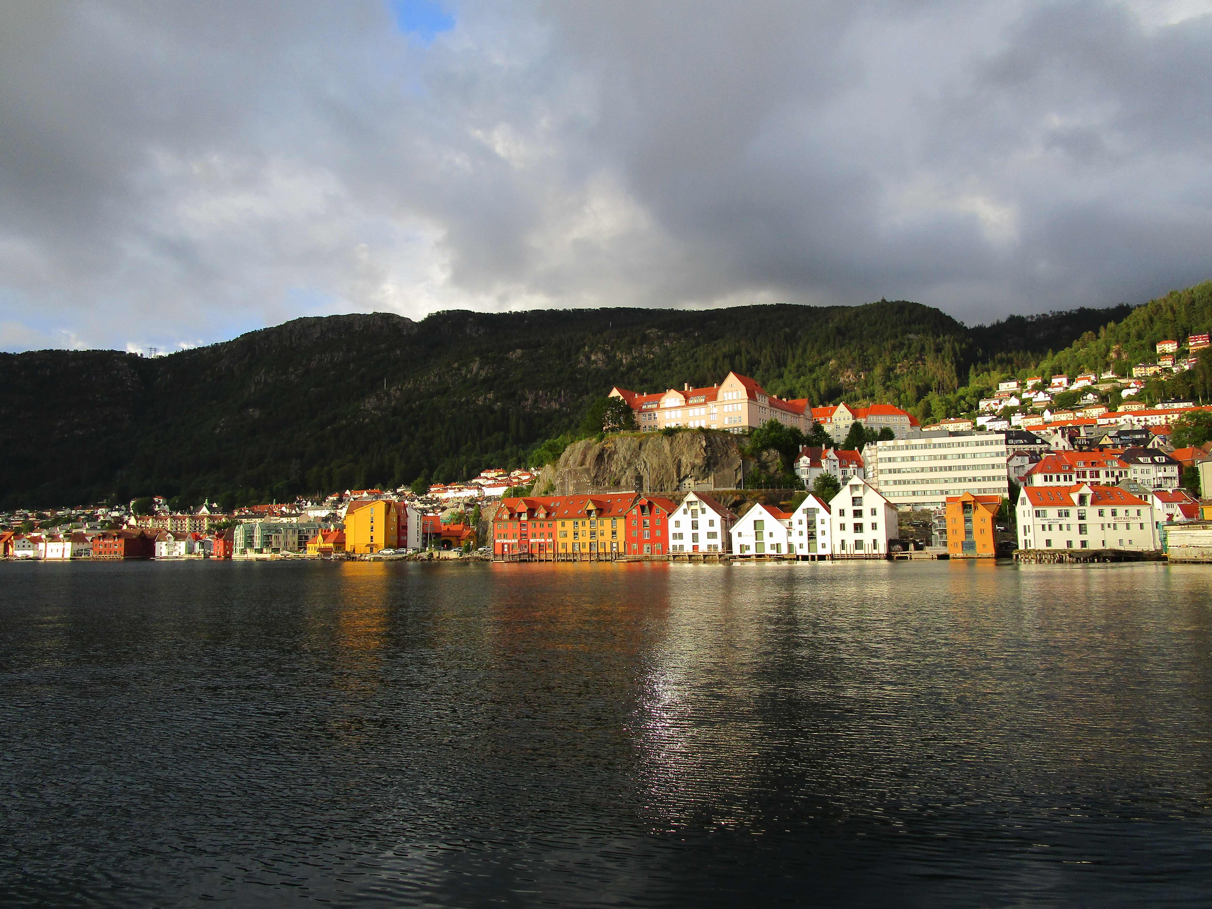 Rothaugen, Bergen (with Rothaugen Skole on top).